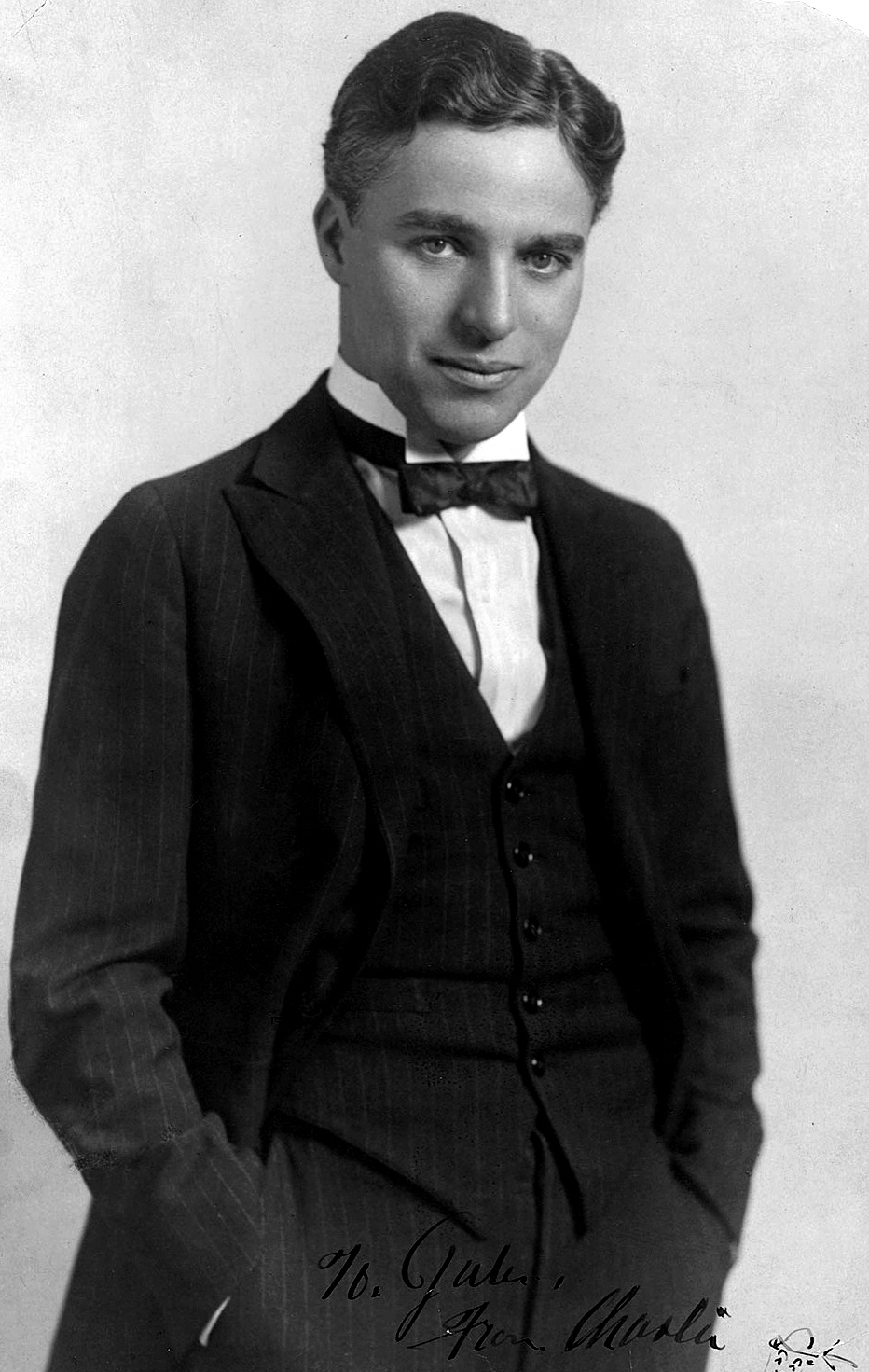 Posed publicity photo of Charlie Chaplin with autograph.